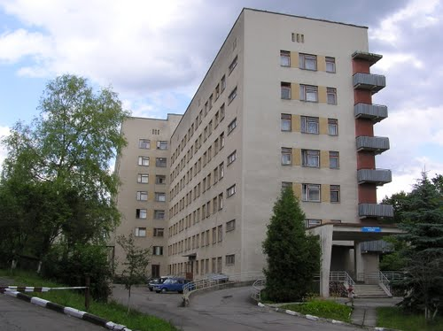 Калуська центральна районна лікарня